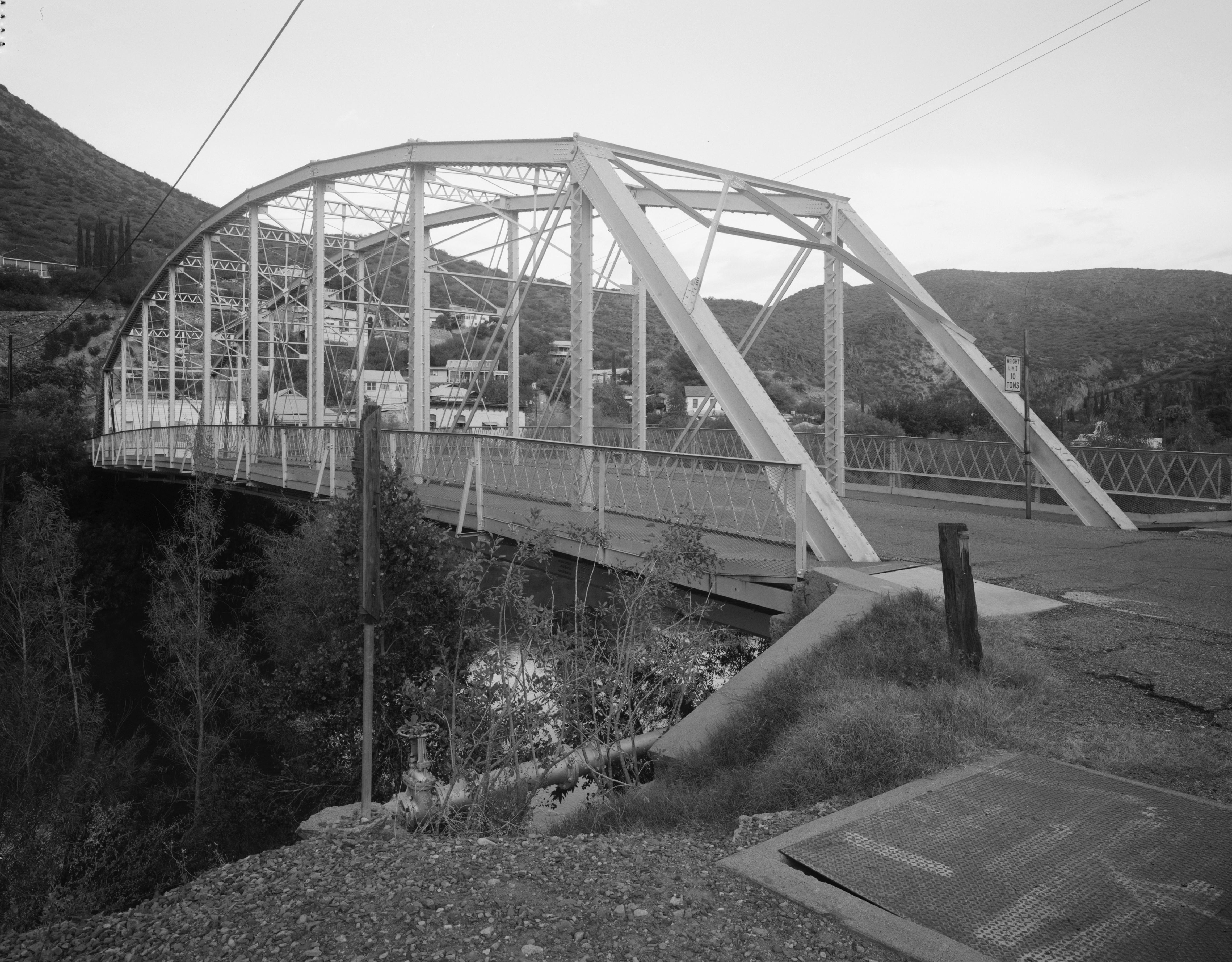 Northern end of the Park Avenue Bridge, which carries Park Avenue over the San Francisco River at Clifton, Arizona. Built in 1918, the iron through truss bridge is a contributing property to the the Clifton Townsite Historic District and is listed on the National Register of Historic Places. Image: HABS—Historic American Buildings Survey of Arizona.